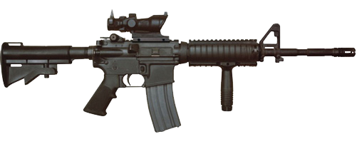 Transparent and PNG version of file:M4A1_ACOG.jpg.